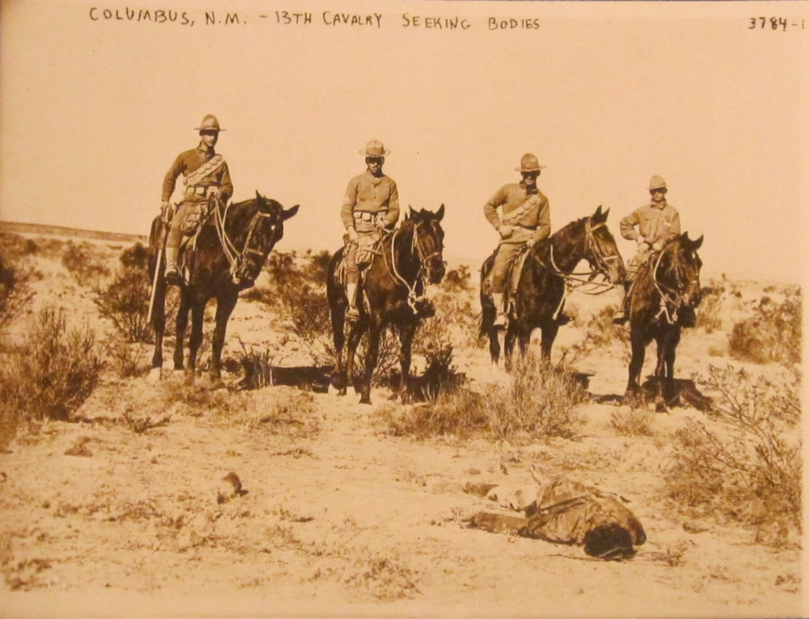 13th Cavalry troopers standing near the body of a Villista in Columbus, NM 1916. Written at the top; 13th Cavalry seeking bodies.